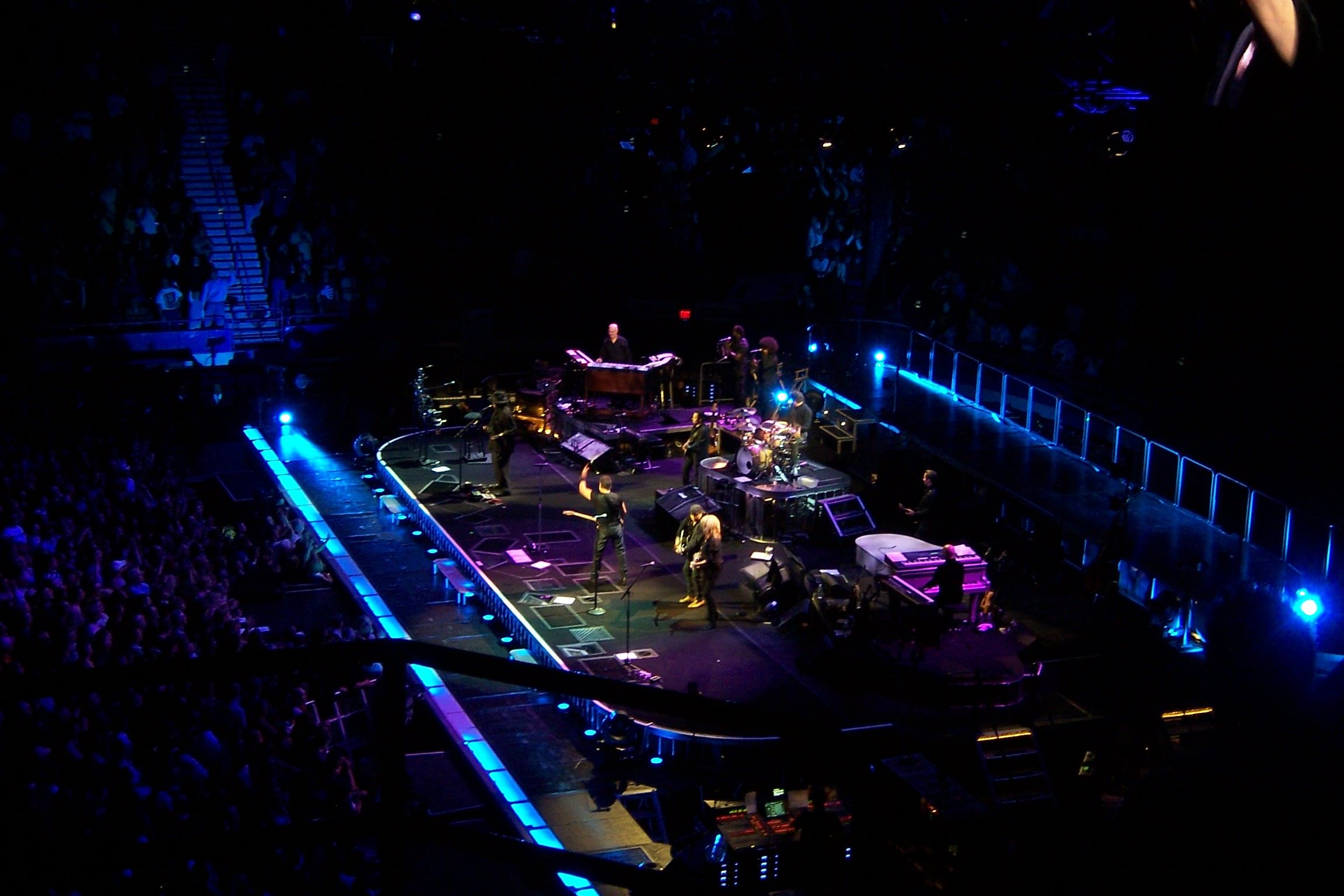 Bruce Springsteen and the E Street Band performing "Working on a Dream" at the ex-Hartford Civic Center